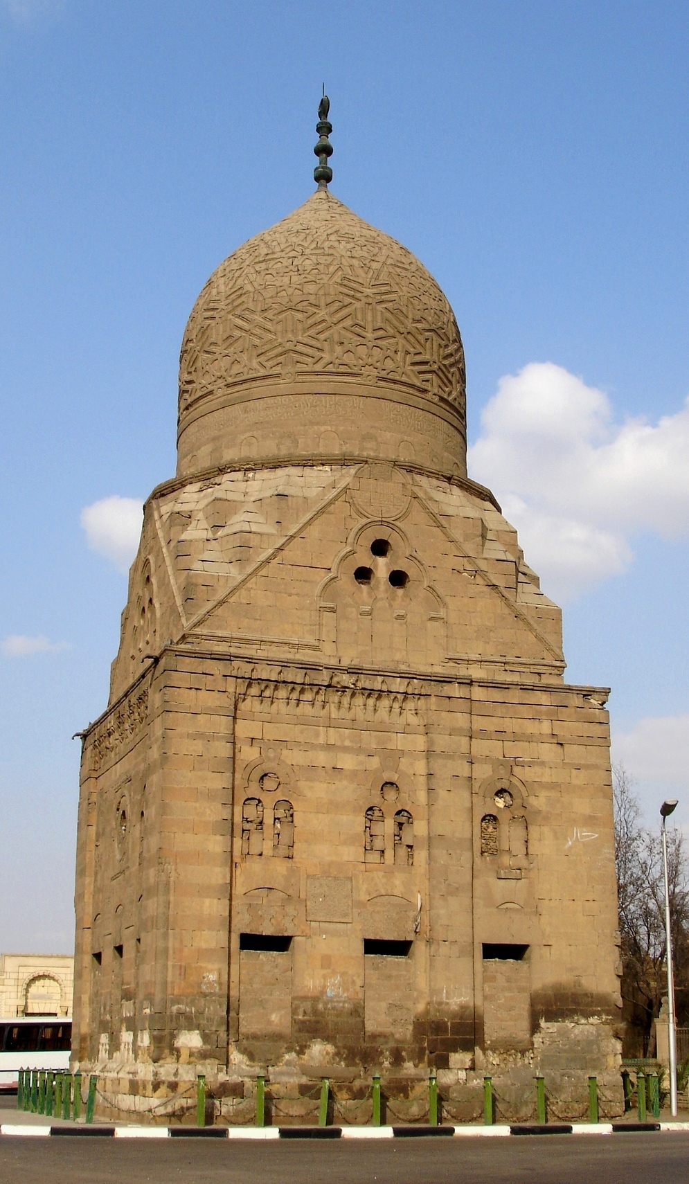 Tomb of al-Zahir Qansuh, the Burji Mamluk sultan, in the northern cemetery of Cairo.